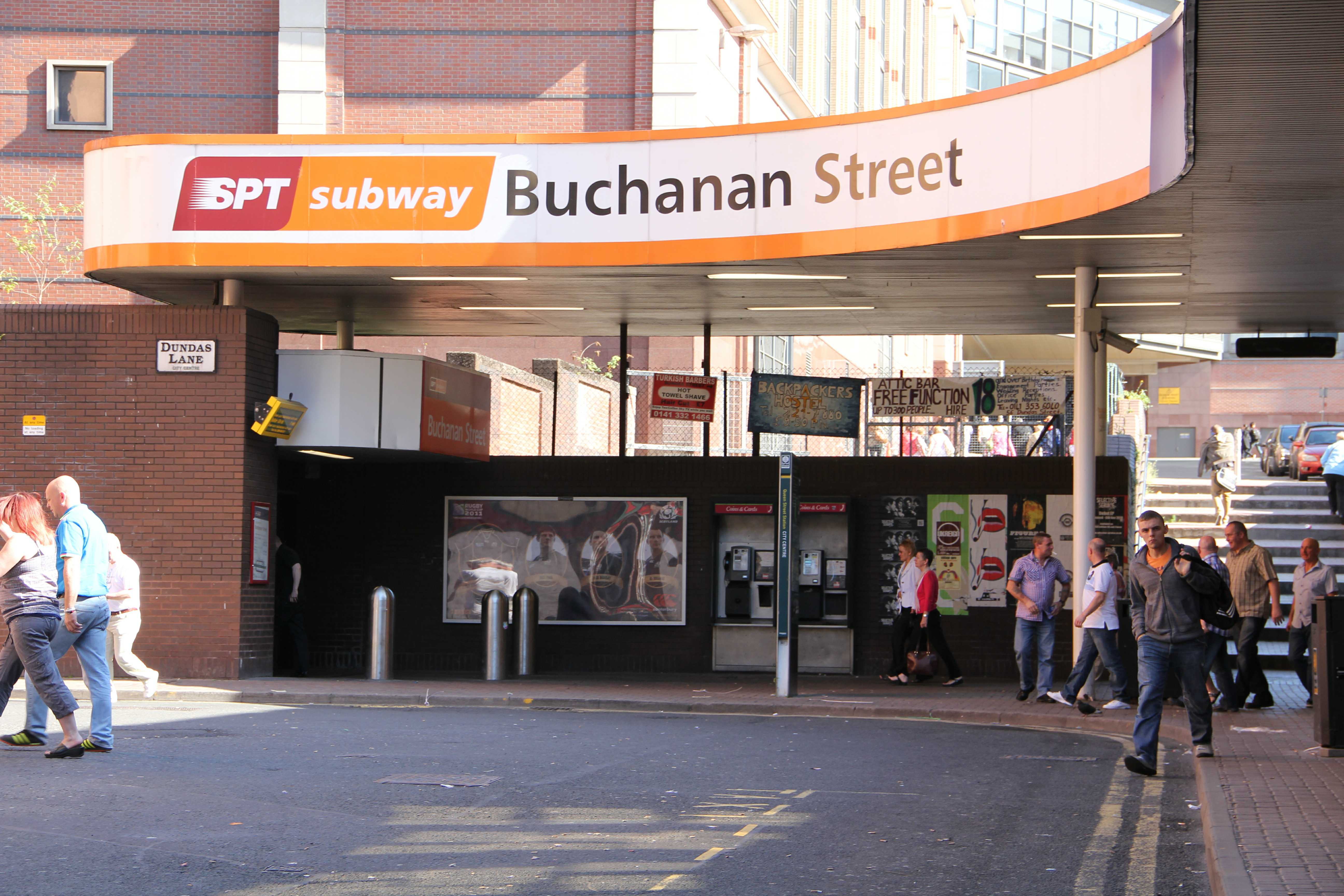 Glasgow Queen Station entrance to Buchanan Street Subway Station